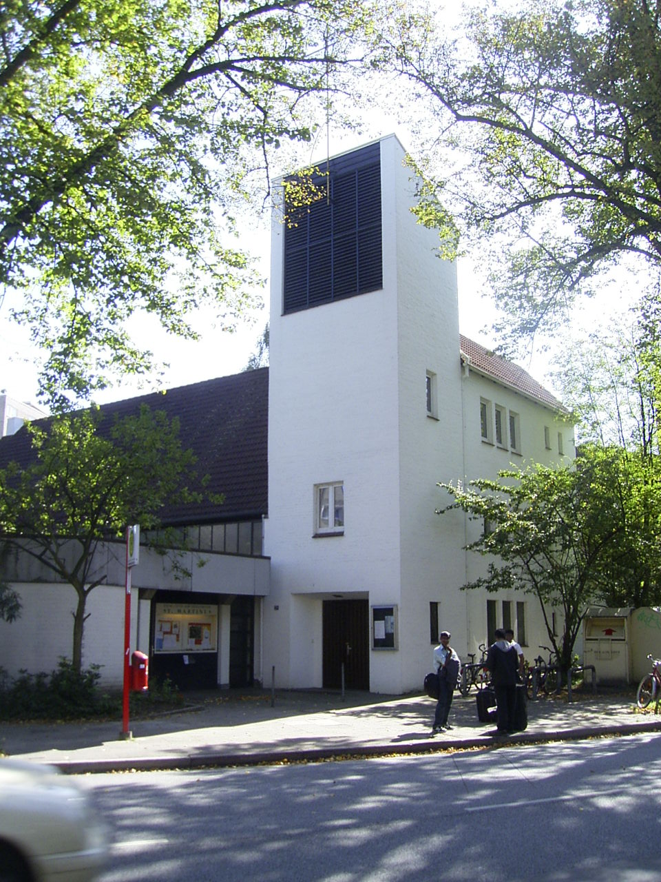 The Evangelical Lutheran Saint Martinus church in Eppendorf (a locality of Hamburg), Germany, is owned and used by a Lutheran congregation within the North Elbian Evangelical Lutheran Church.